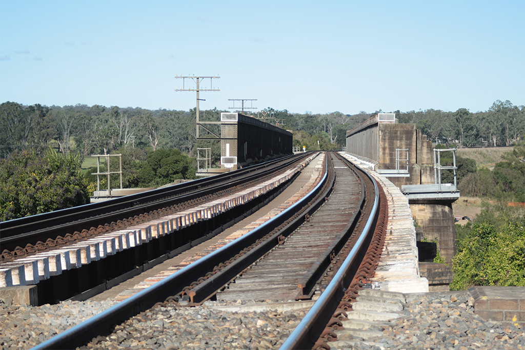 Heritage listed Menangle Viaduct (railway bridge) over Upper Nepean River, Menangle, NSW Australia.